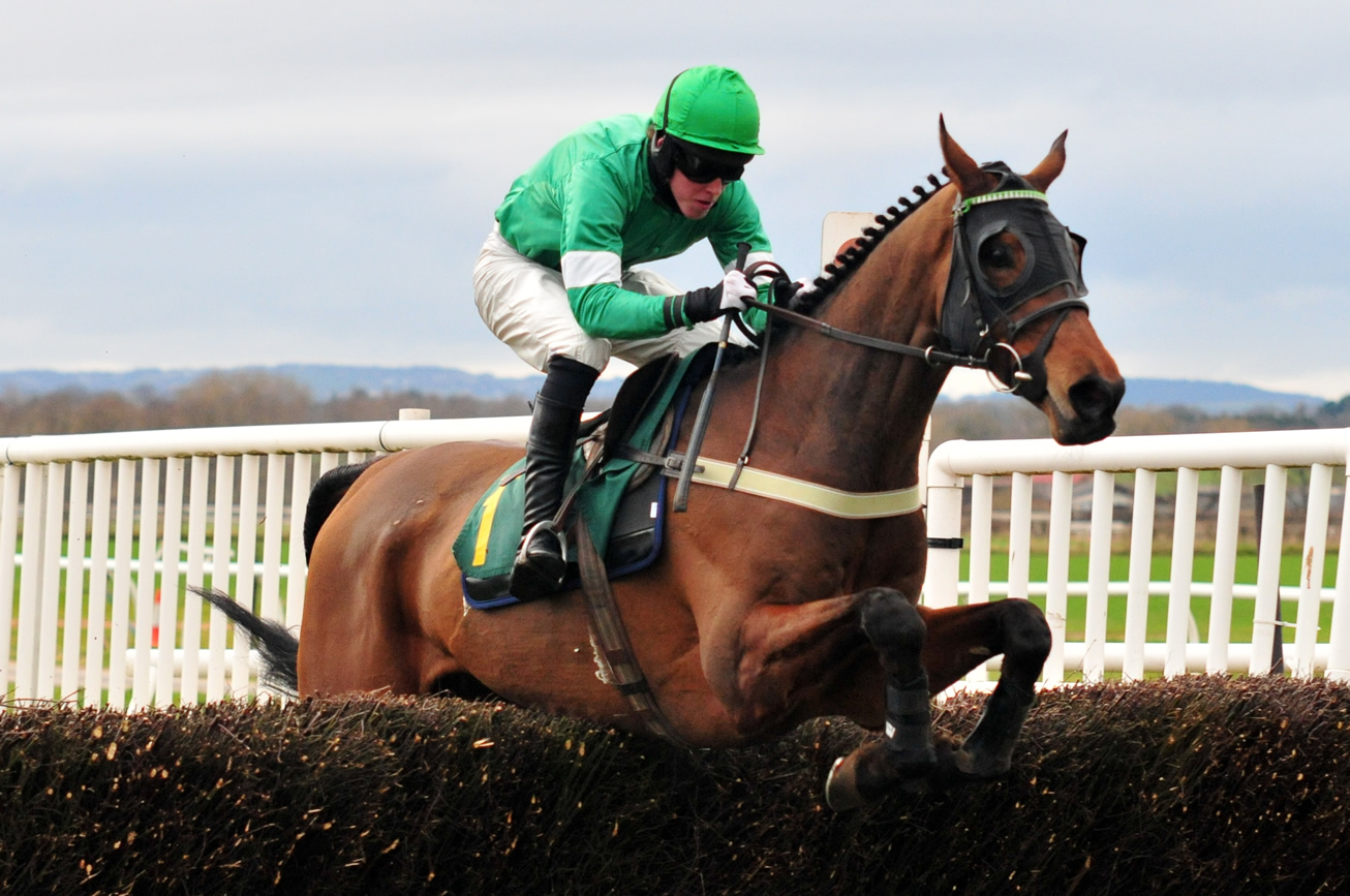 Aztec Warrior at 150 Years Of Racing At Bangor On Dee Handicap Chase run at Bangor on Dee on 25 February 2009.